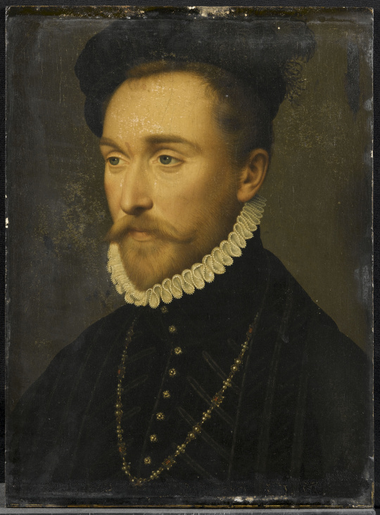 Portrait of Albert de Gondi, Marshal of France